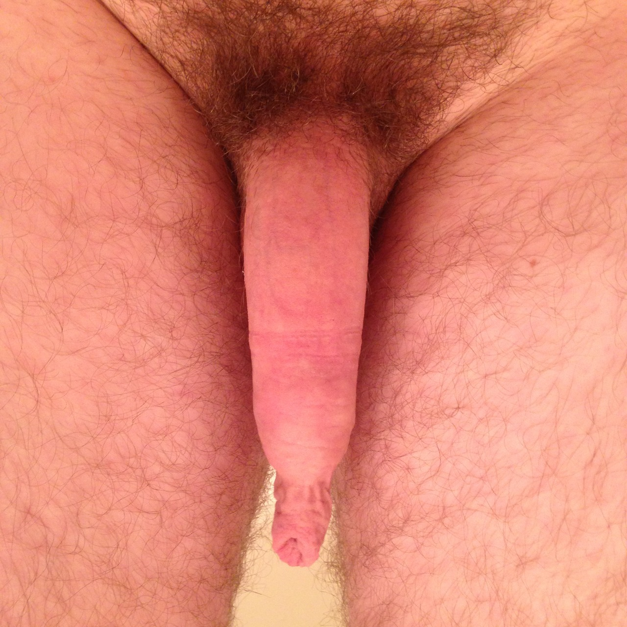 male foreskin